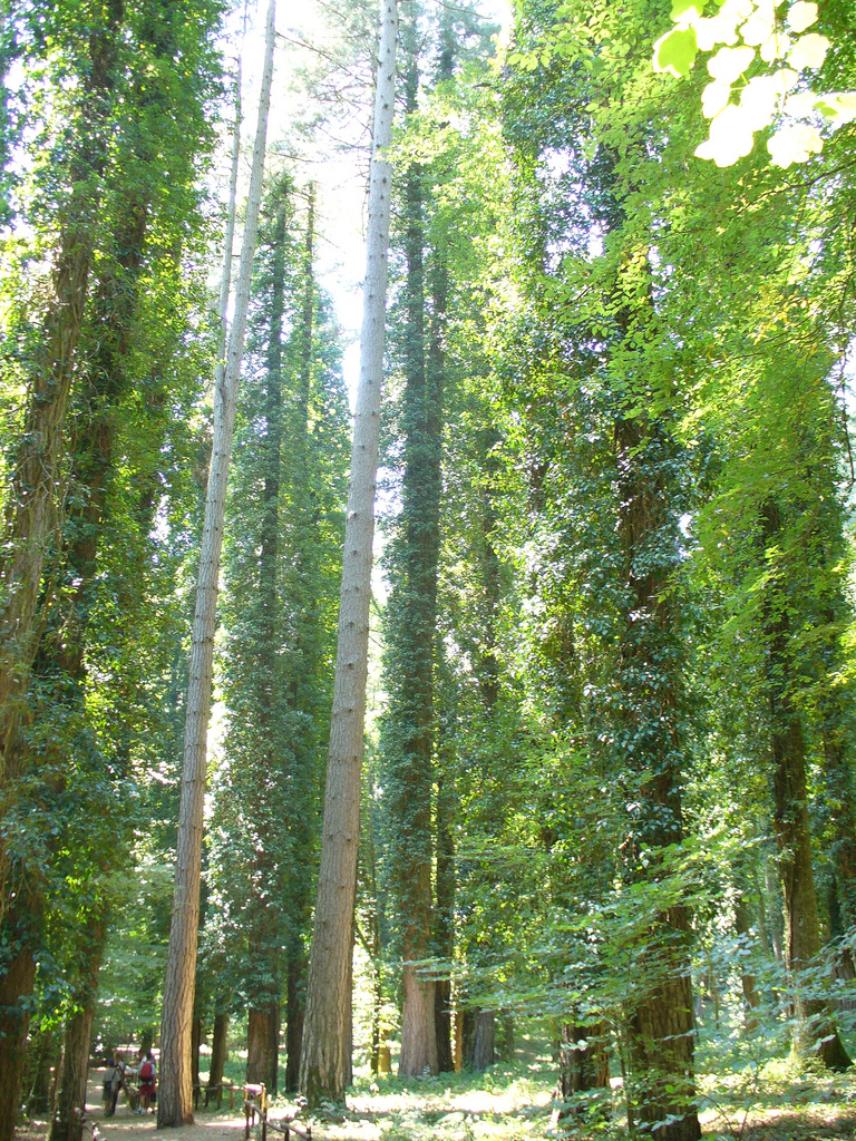 Foresta Umbra, spettacular secular forest on the Gargano, with trees which reaching 30 meters